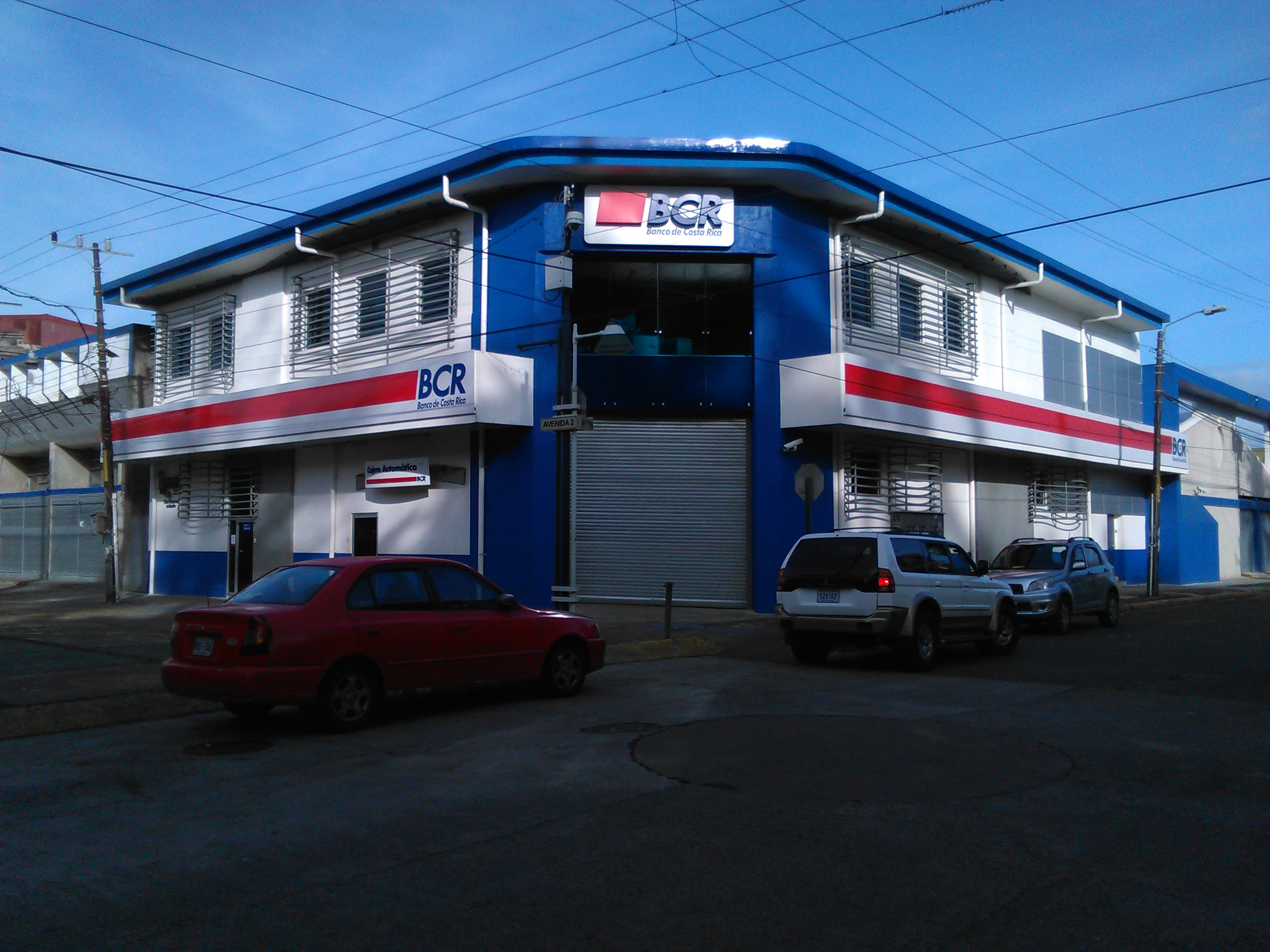 Banco de Costa Rica headquarters in Limón